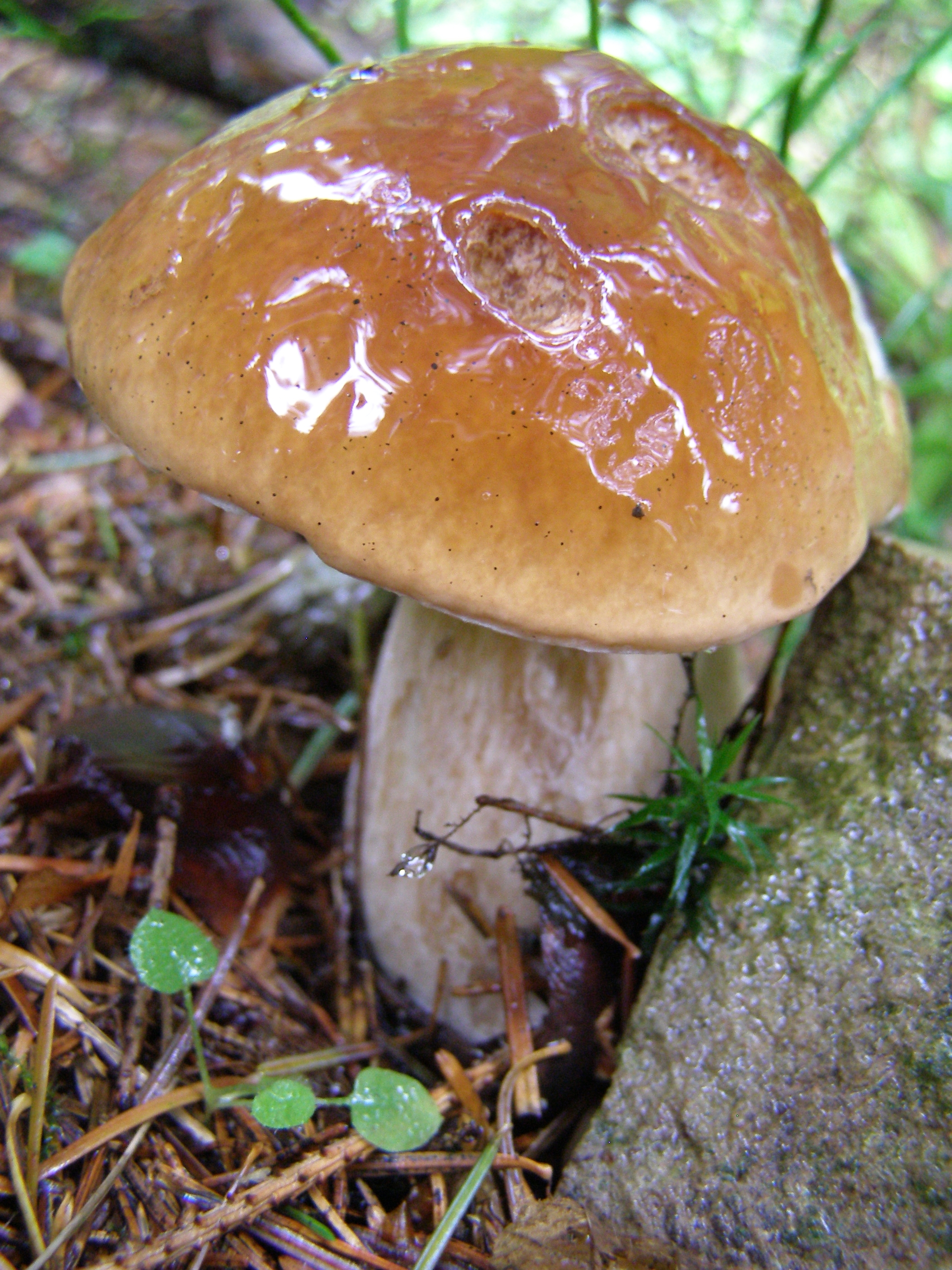 Penny bun (Boletus edulis)